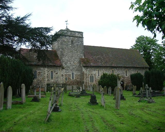 St Laurence's parish church, Upton Slough, Berkshire (formerly Buckinghamshire), seen from the northeast